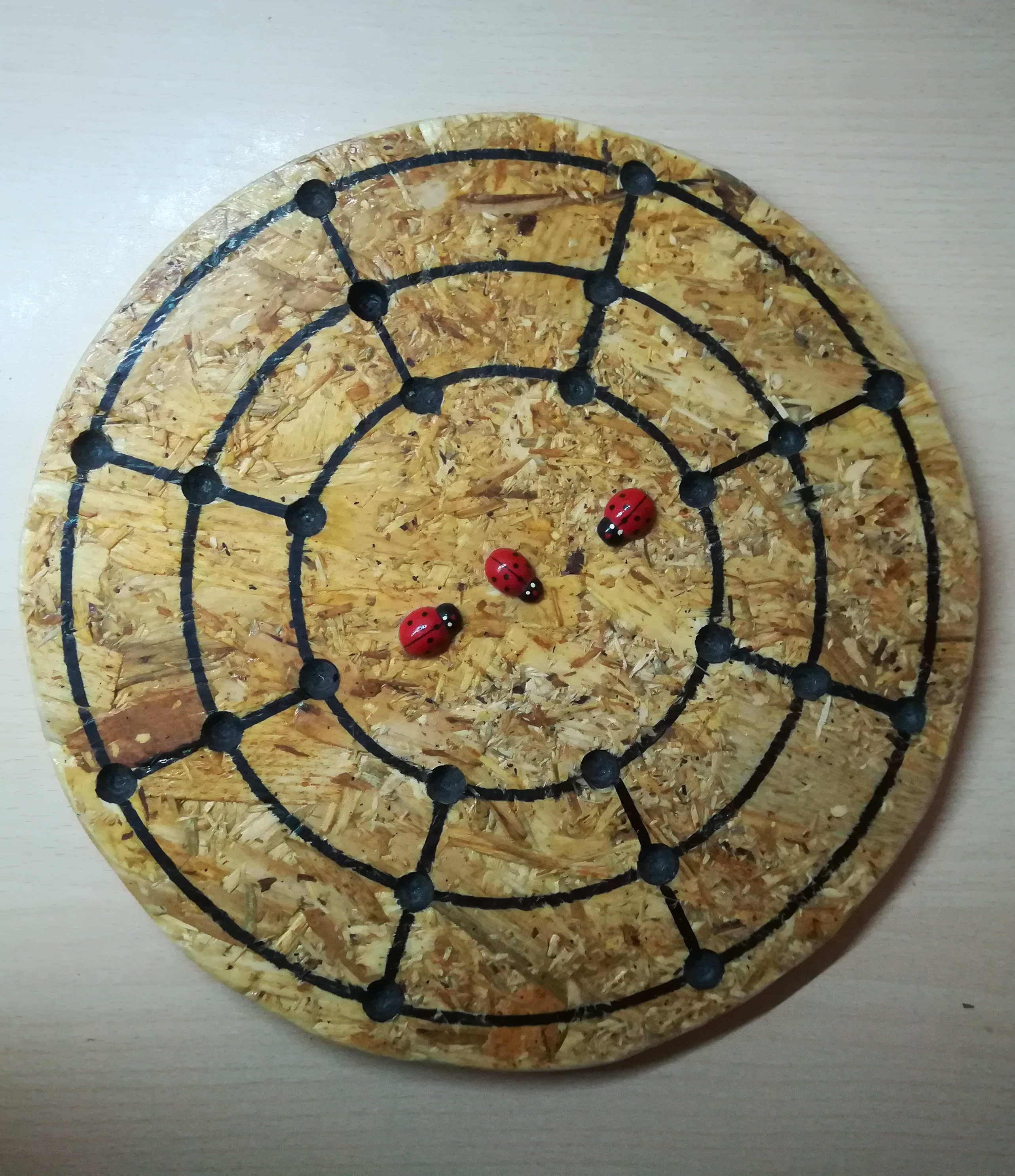 Twelve Men's Morris